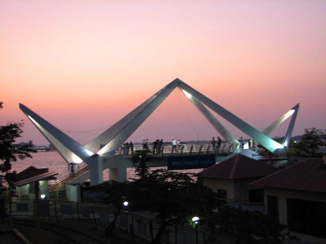 The Chinese Fishing Net Bridge at the Marine Drive walkway in Kochi, Kerala.